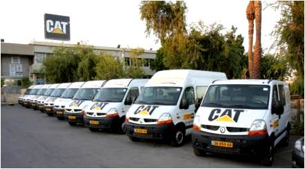 ניידות שירות